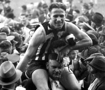 A photograph of Bob Quinn, taken ca. 1938.